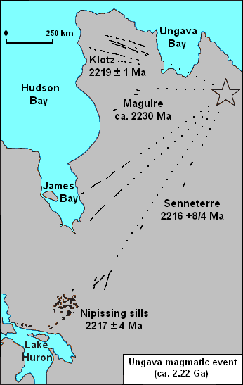 Map of the Ungava magmatic event in Eastern Canada.